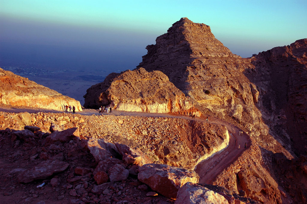 Jebel Hafeet mountain in Al Ain, United Arab Emirates